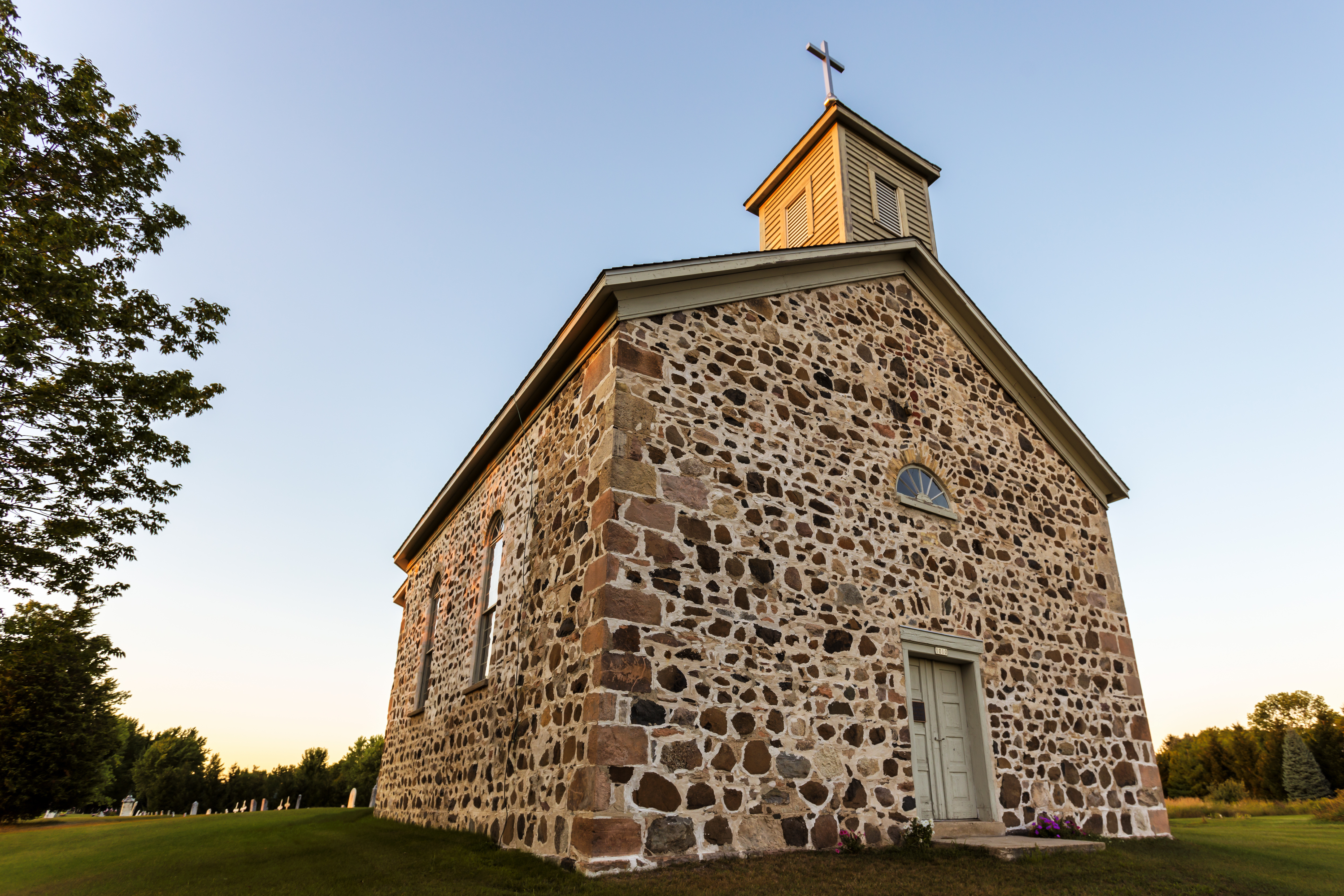 St. Peter